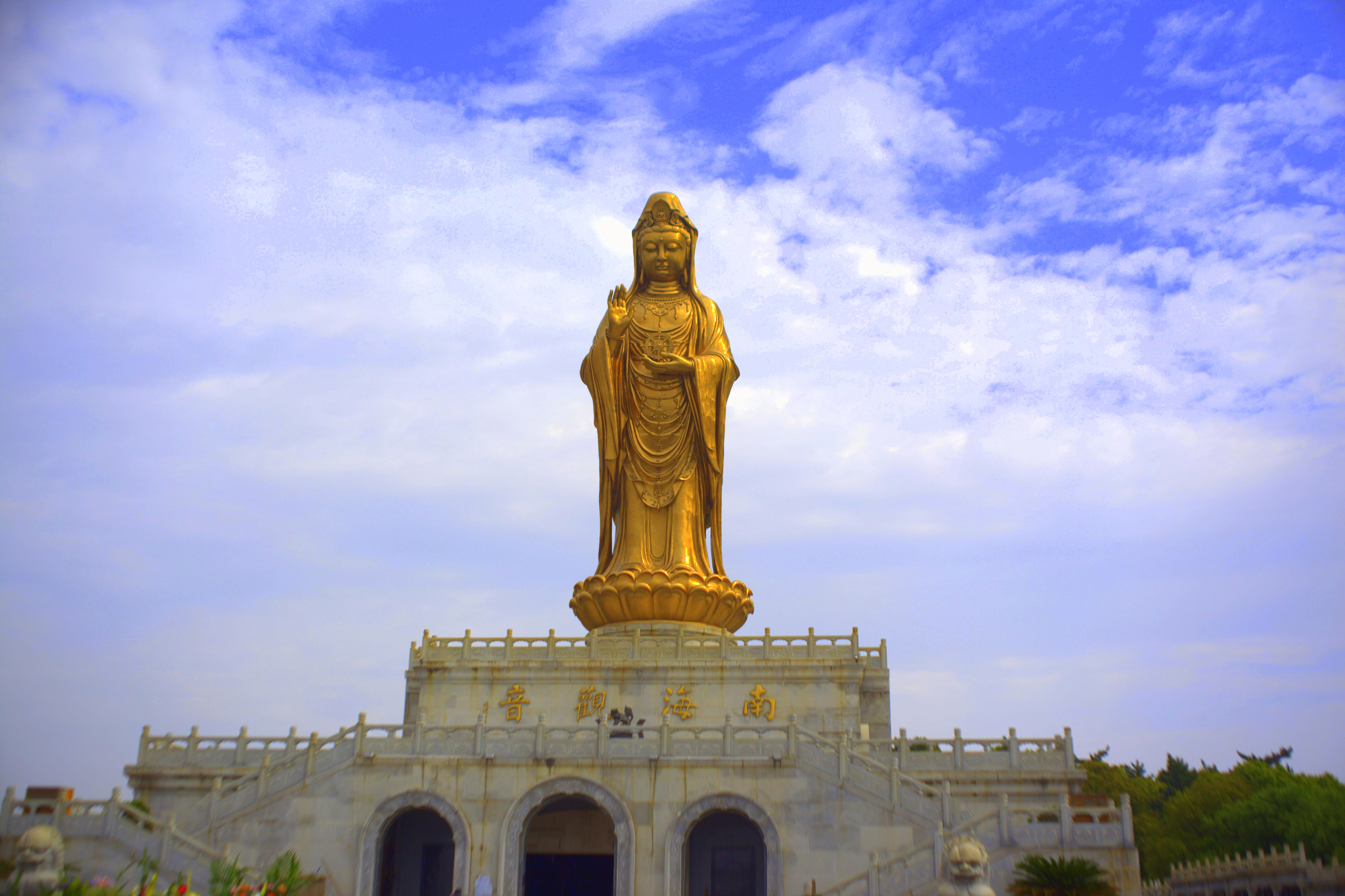 Giant statue of bodhisattva Guanyin.